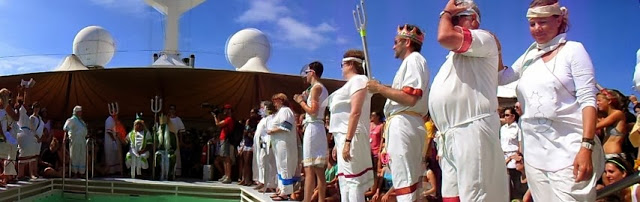 Neptune Day Fall 2013 Semester At Sea